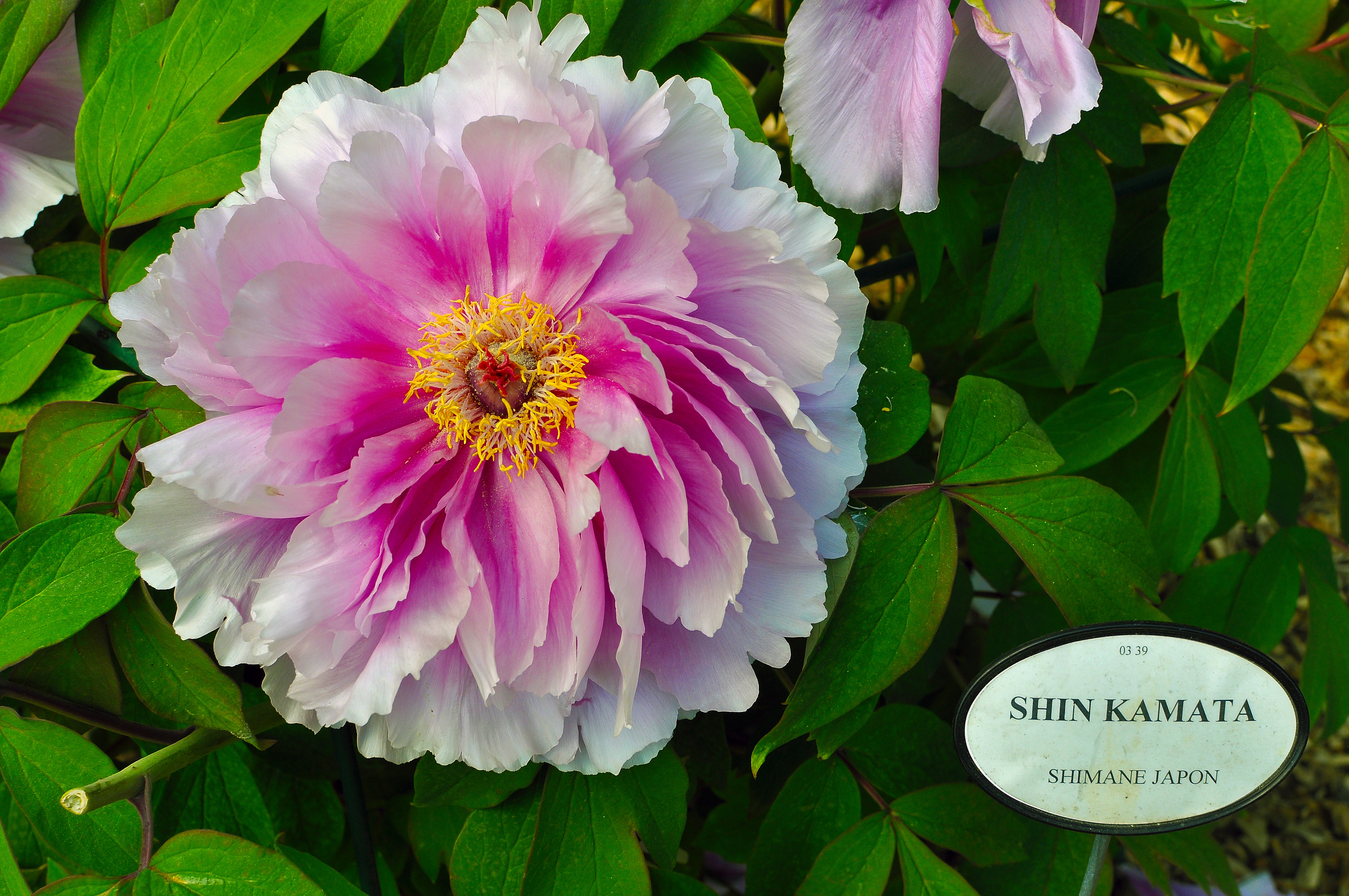 Tree peony (Paeonia suffructicosa) 'Shin Kamata' in the Parc de Bagatelle, at 16th arrondissement of Paris.